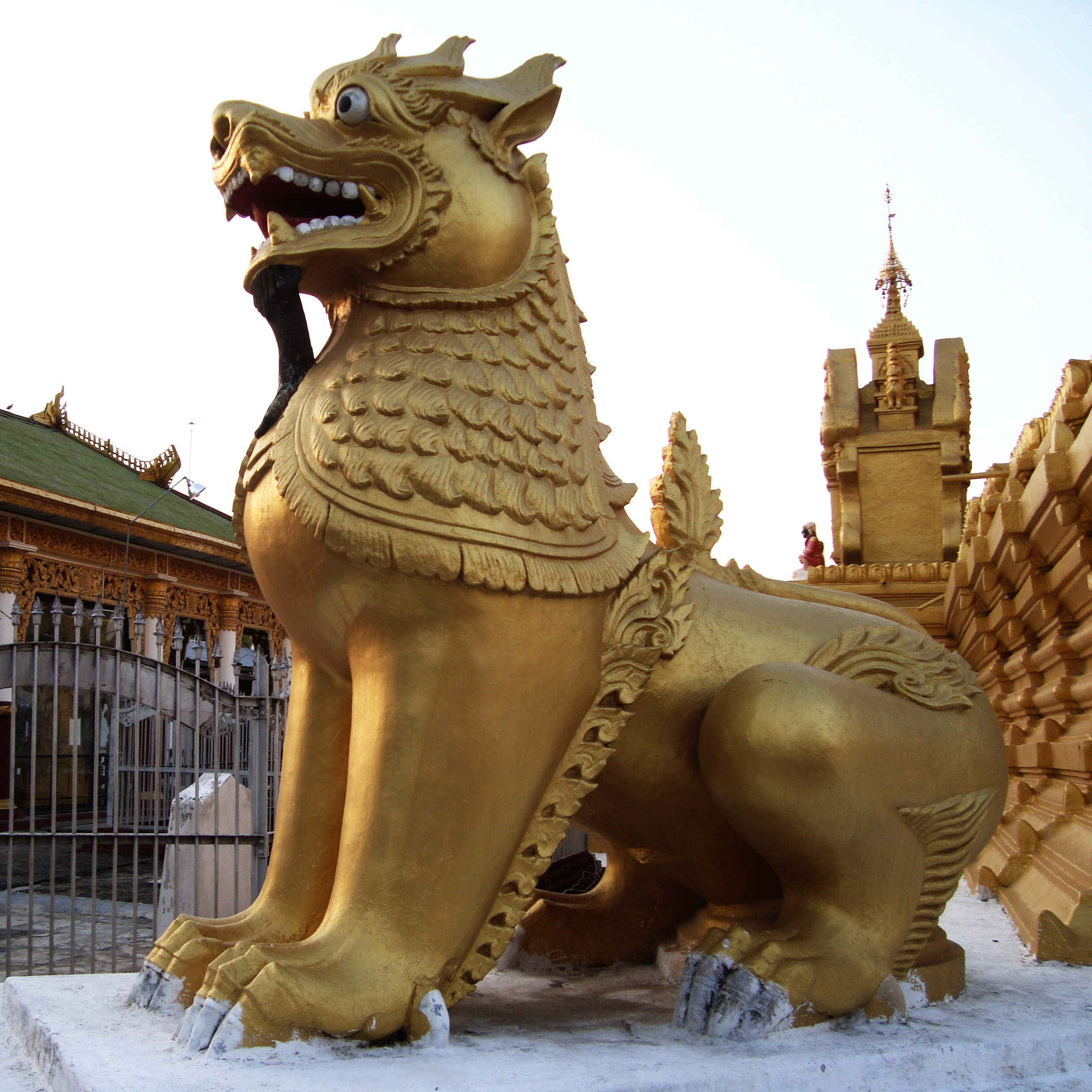 Sculpture of Myanmar mythical lion at the foot of a pagoda.